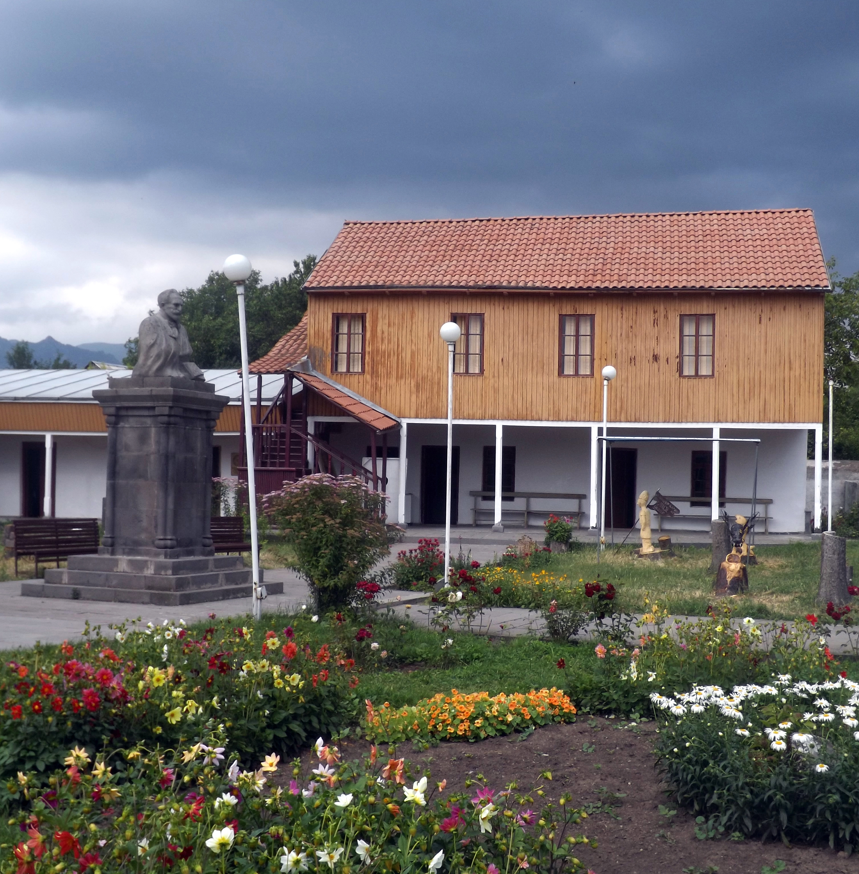 Hovhannes Tumanyan memorial house-museum in Dsegh